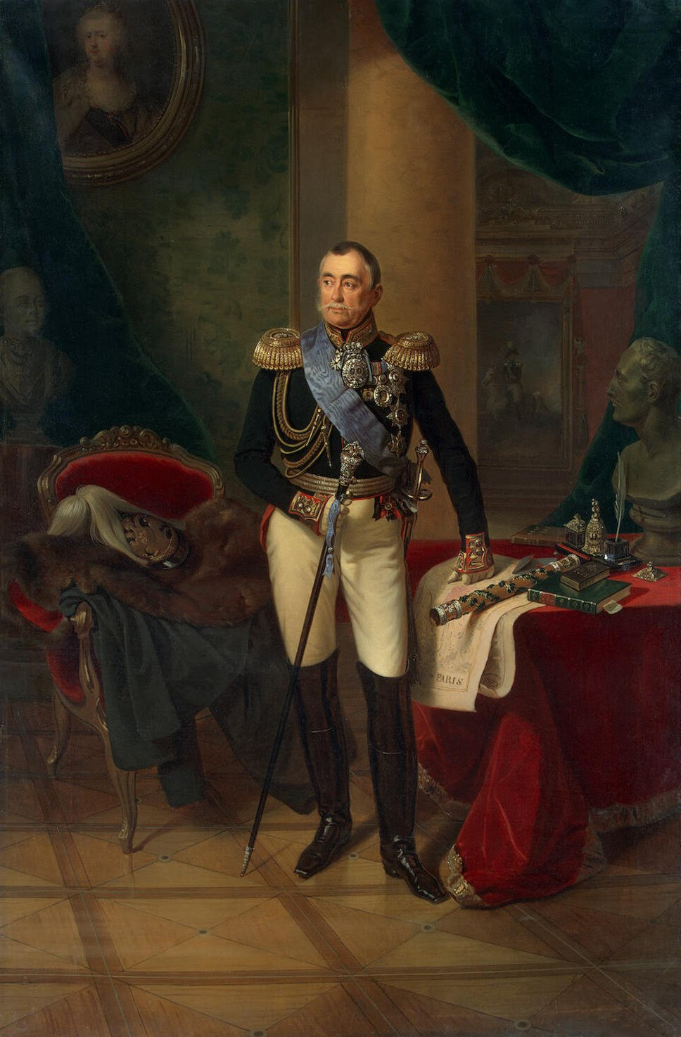 Prince_Pyotr_Mikhailovich_Volkonsky (1776—1852) russian Generalfeldmarschall by Franz Krüger 1850 S-Peterburg, State Hermitage